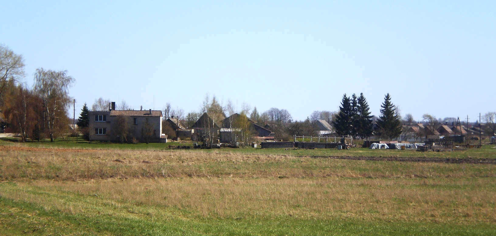 Beinaičiai, Kėdainiai dst., Lithuania